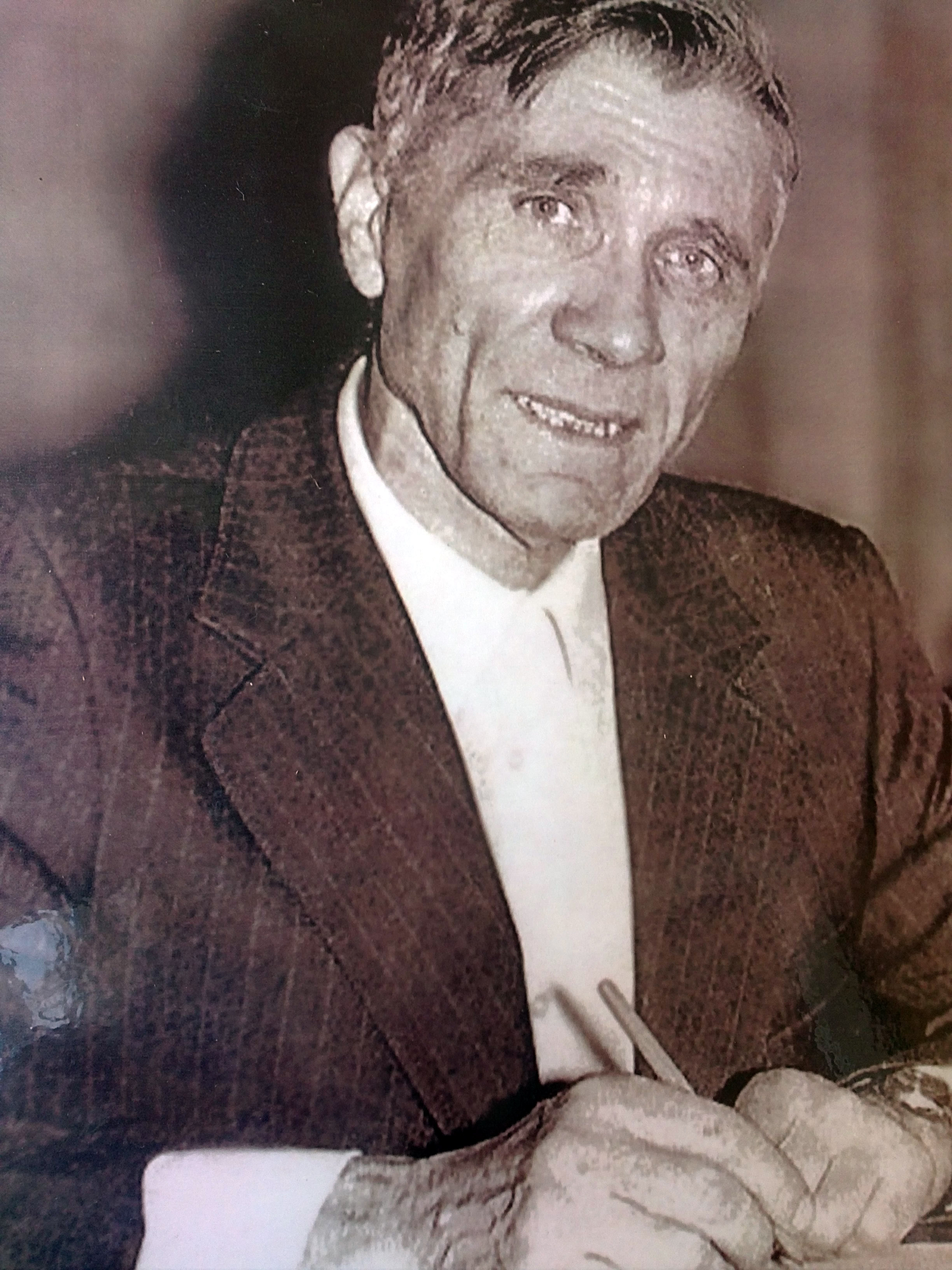 a noted Russian and Ukrainian linguist Andrey Korsakov at work